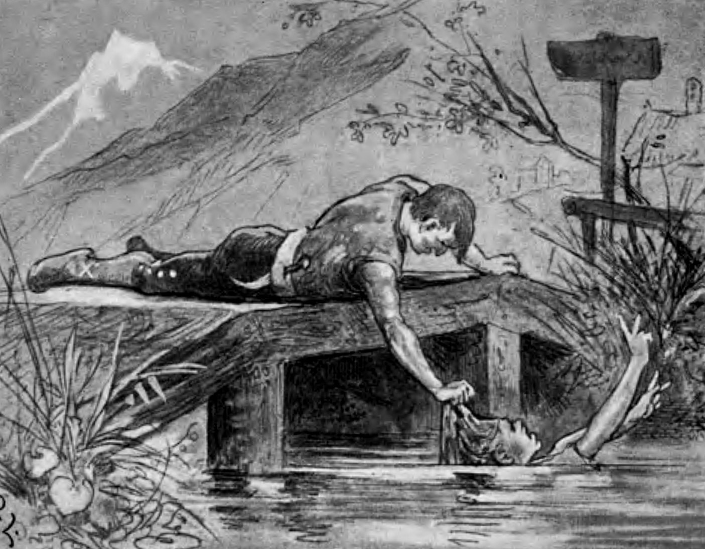 Illustration by Carl Larsson of the book "Folksagor" by Asbjörnsen and Moe, Stockholm 1927